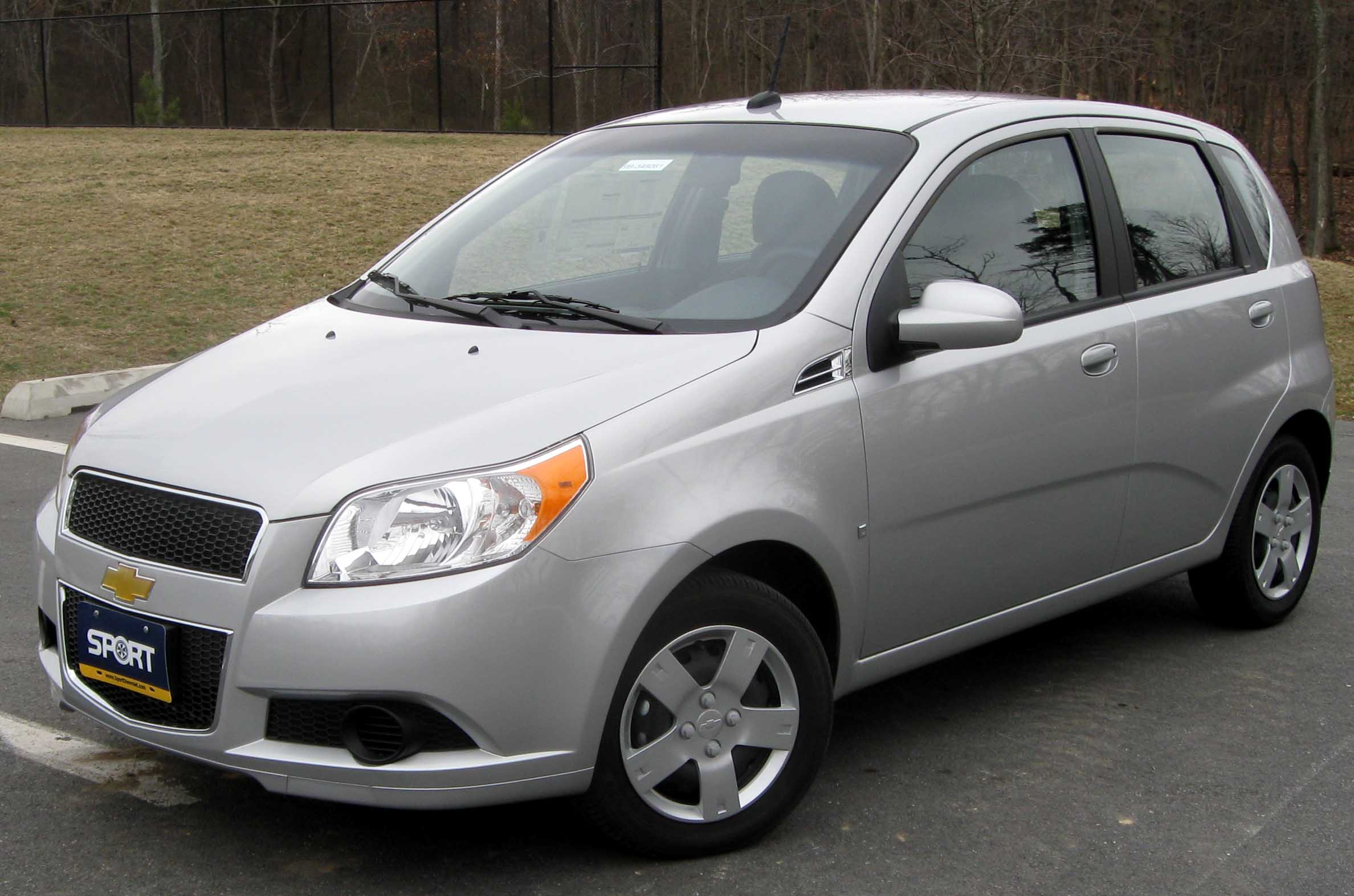 2009 Chevrolet Aveo5 photographed in Silver Spring, Maryland, USA.